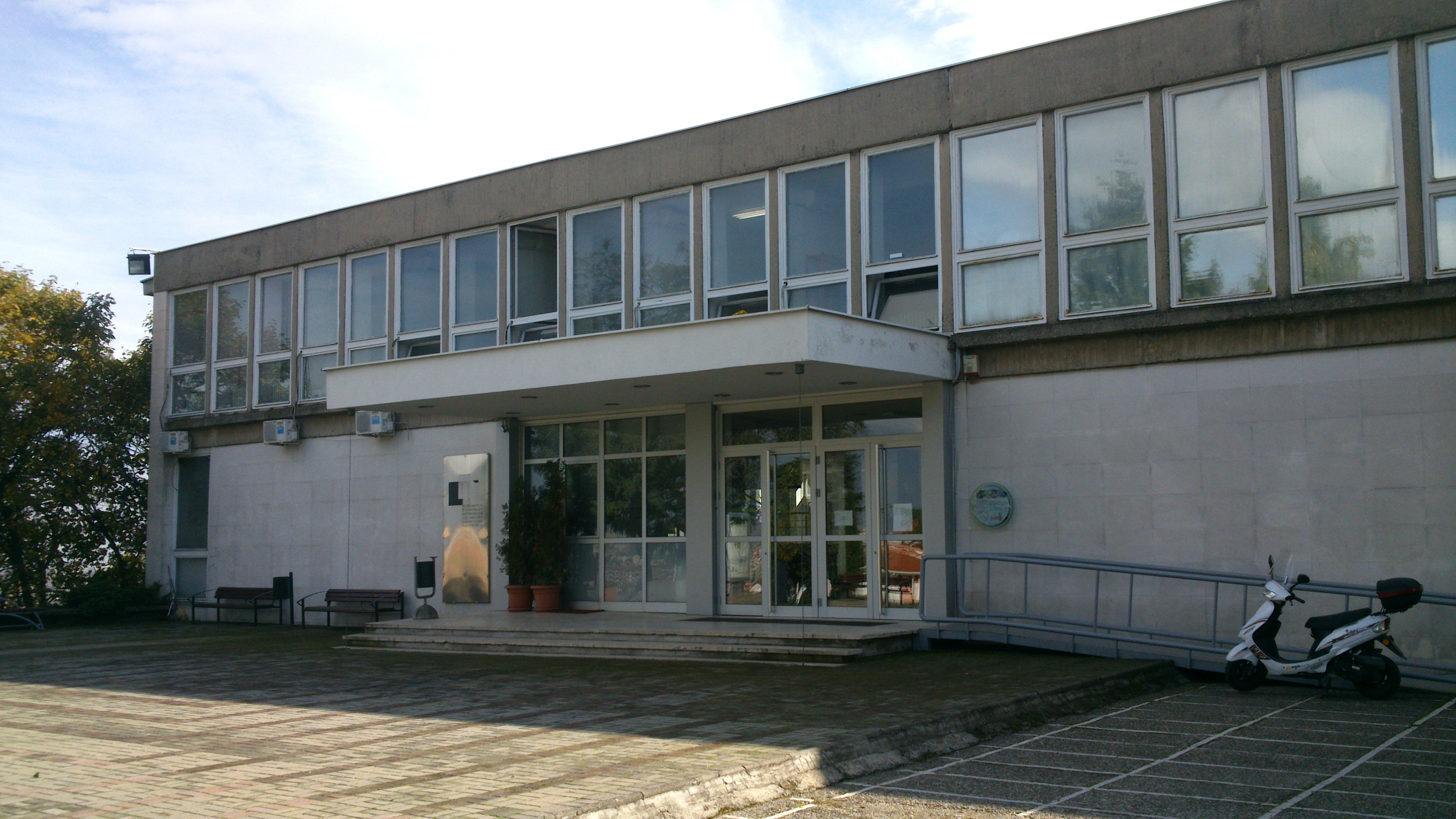 The Museum of Contemporary Art in Skopje, Macedonia Ова е фотографија на споменик на културата во Македонија со типски код: B08This is a a photo of a cultural monument in North Macedonia with type id: B08